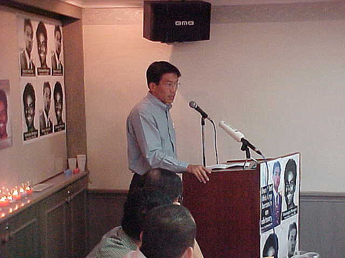 Dr. Chee Soon Juan speaking at a "Night of Solidarity" forum against capital punishment in Singapore.